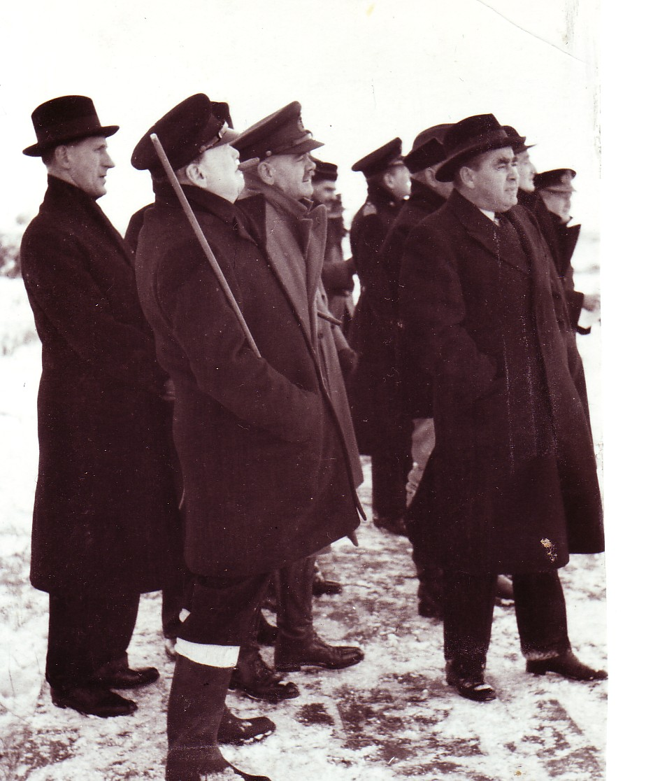 General KM Loch, Frederick Lindemann, and Winston Churchill at anti aircraft drill circa 1941